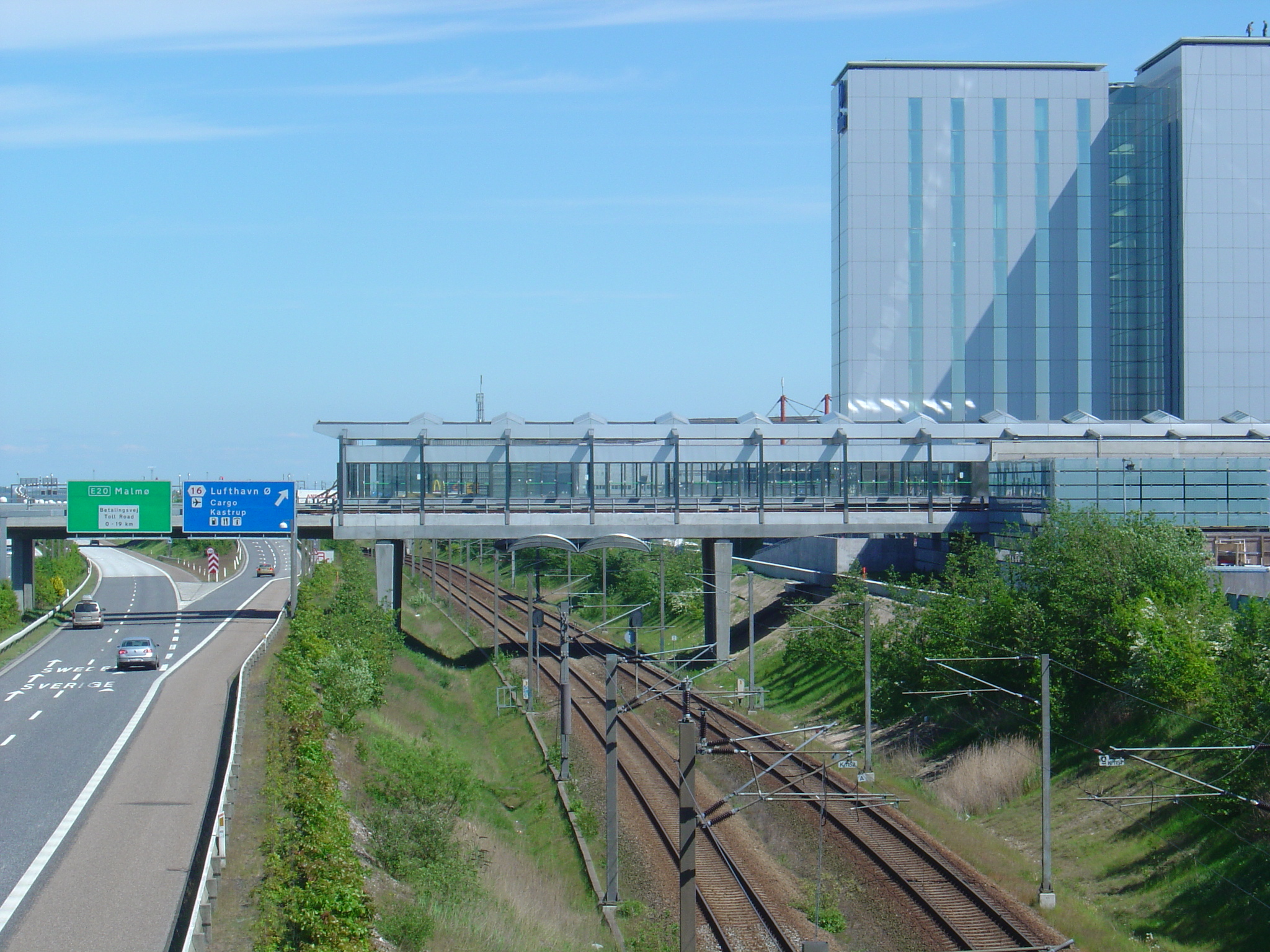 Lufthavnen station - part of Copenhagen Metro on Amager, København. Seen from a bridge across Øresundsmotorvejen on the west side.